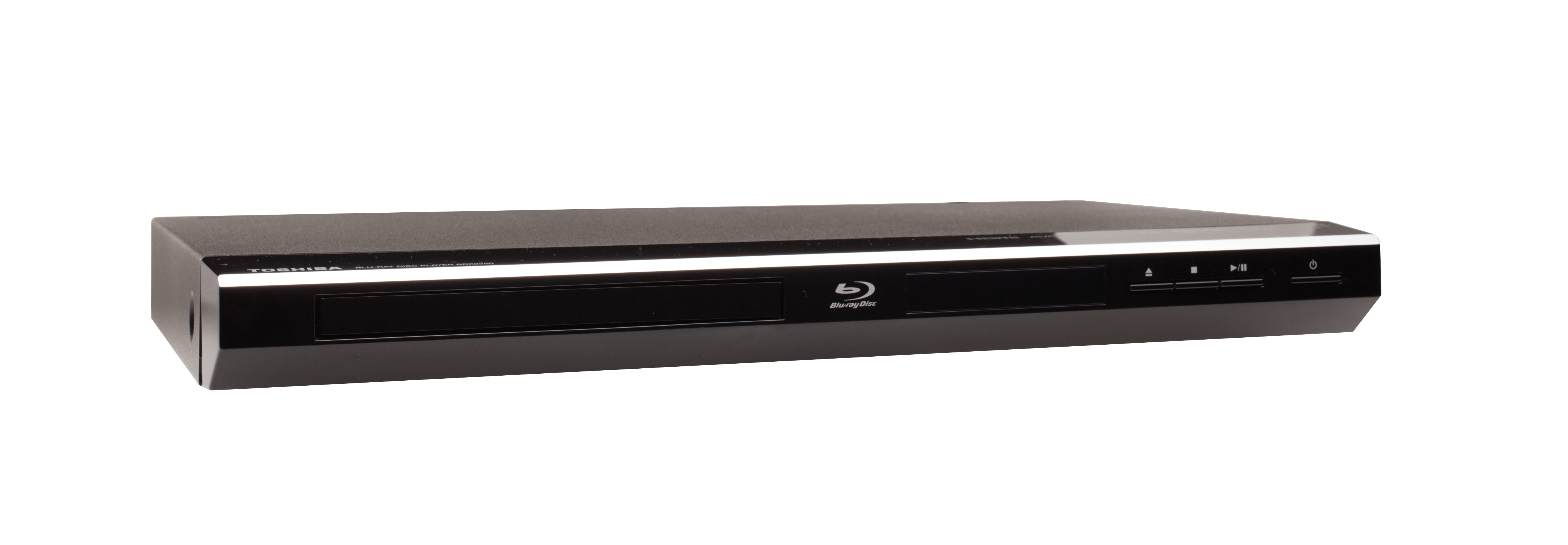 "Brand-name players with wireless networking capability are expected to hit the sub-$100 price level this holiday, combined with a slimmer, lighter form factor with faster navigation and a broader set of connected capabilities compared to the Blu-ray players of 2010." -- Paul Erickson and Bill Morelli, IMS Research ";An LG networked Blu-ray player, not necessarily for Blu-ray, but if you or someone you are buying for doesn't have a connected TV, console or media adapter, this device gets your existing TV access to Netflix, CinemaNow, Vudu and YouTube." -- Danielle Levitas, IDC. Intel Free Press story: Holiday Gift Guide: Tech Experts' Top Picks. Toshiba